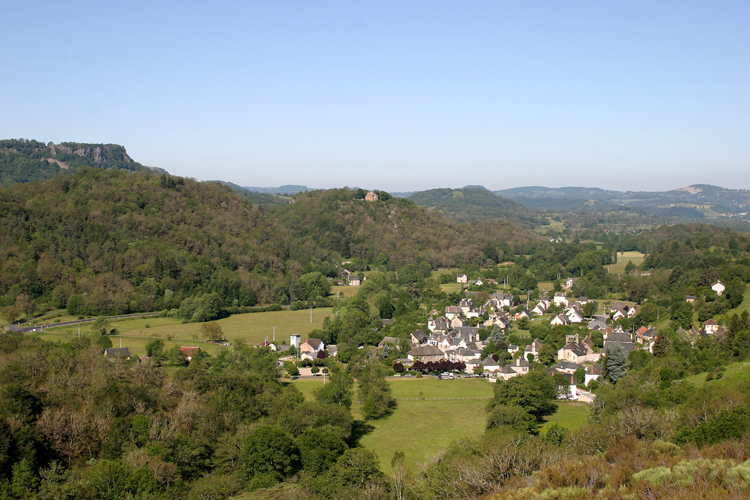 Small town of Antignac in Cantal (France)